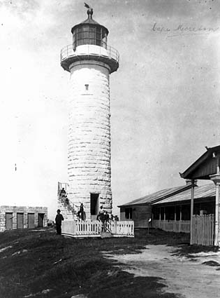 Cape Moreton Light, 1917